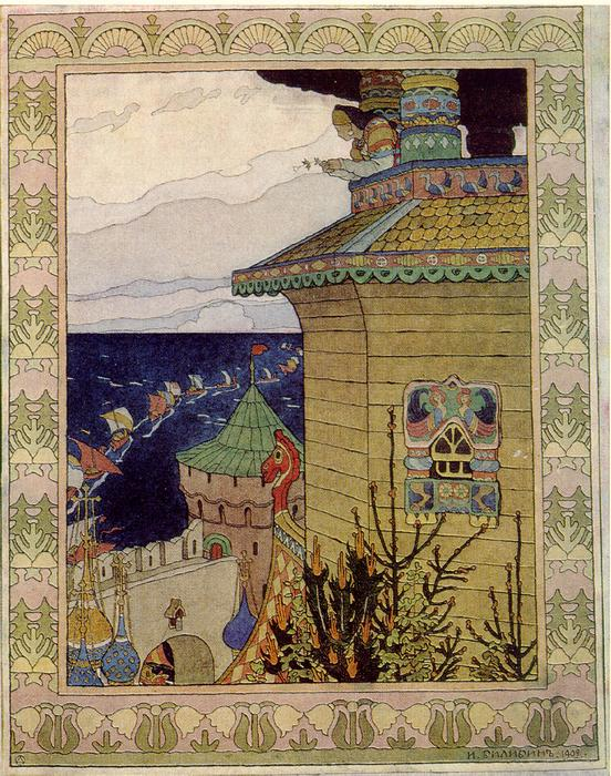 Princess in the prison tower. Illustration of the Russian folk tale "The White Duck"